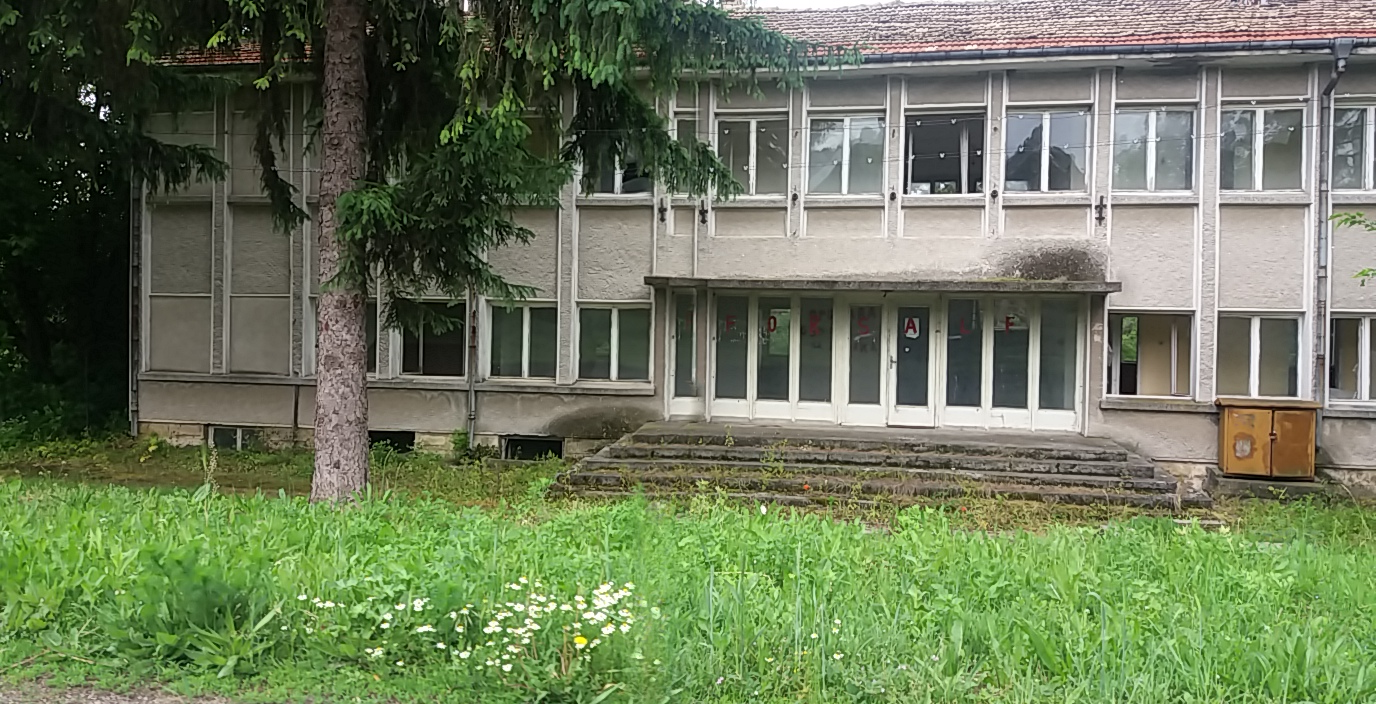 Ushintzi lyceum